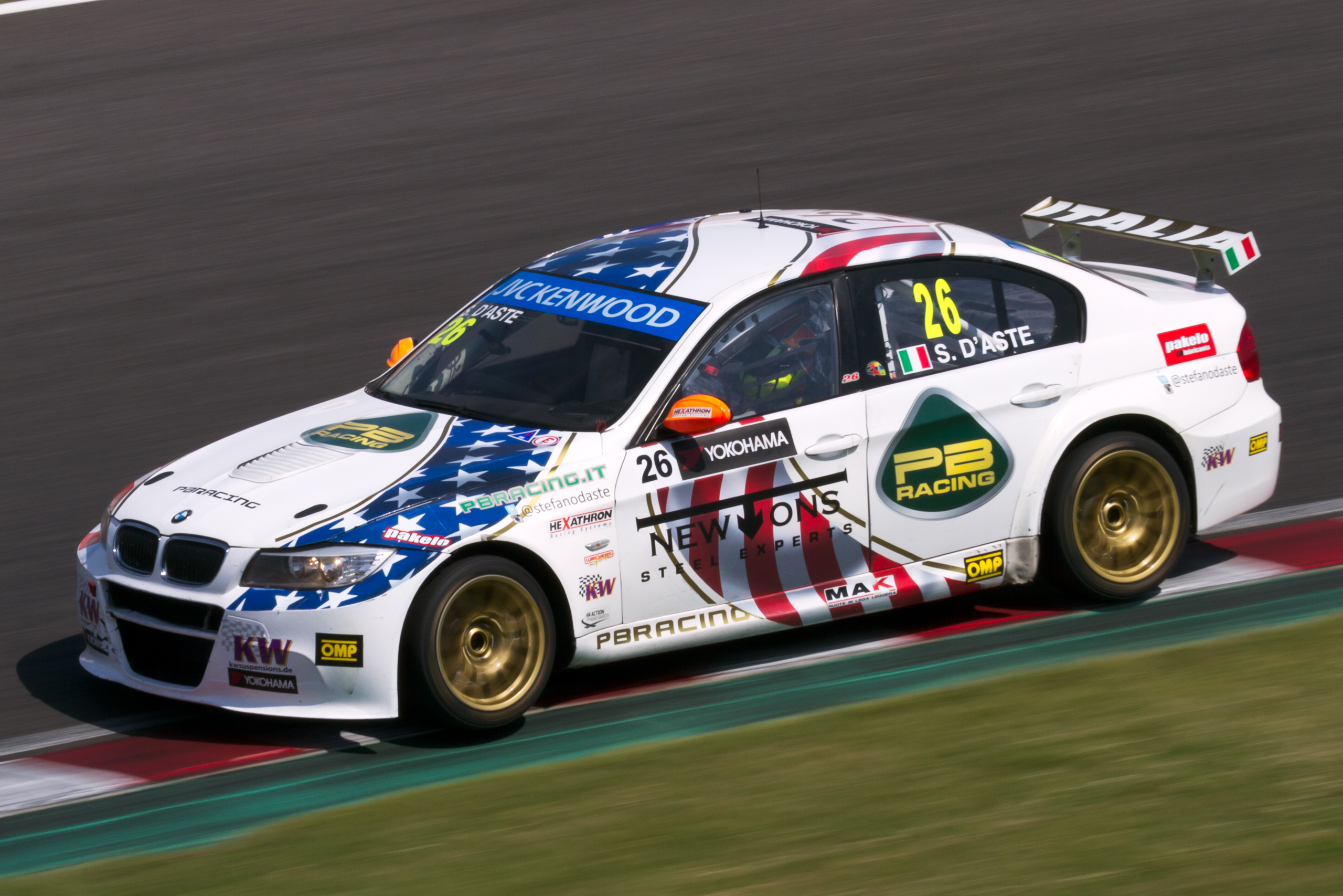 World Touring Car Championship 2013 Race of Japan: Stefano D'Aste (PB Racing)